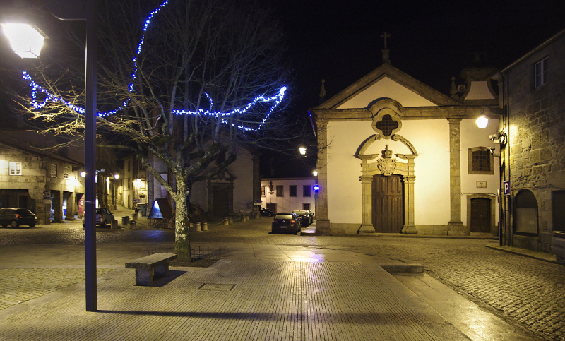 D. Dinis Square